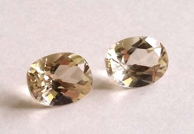 Bytownite from USA